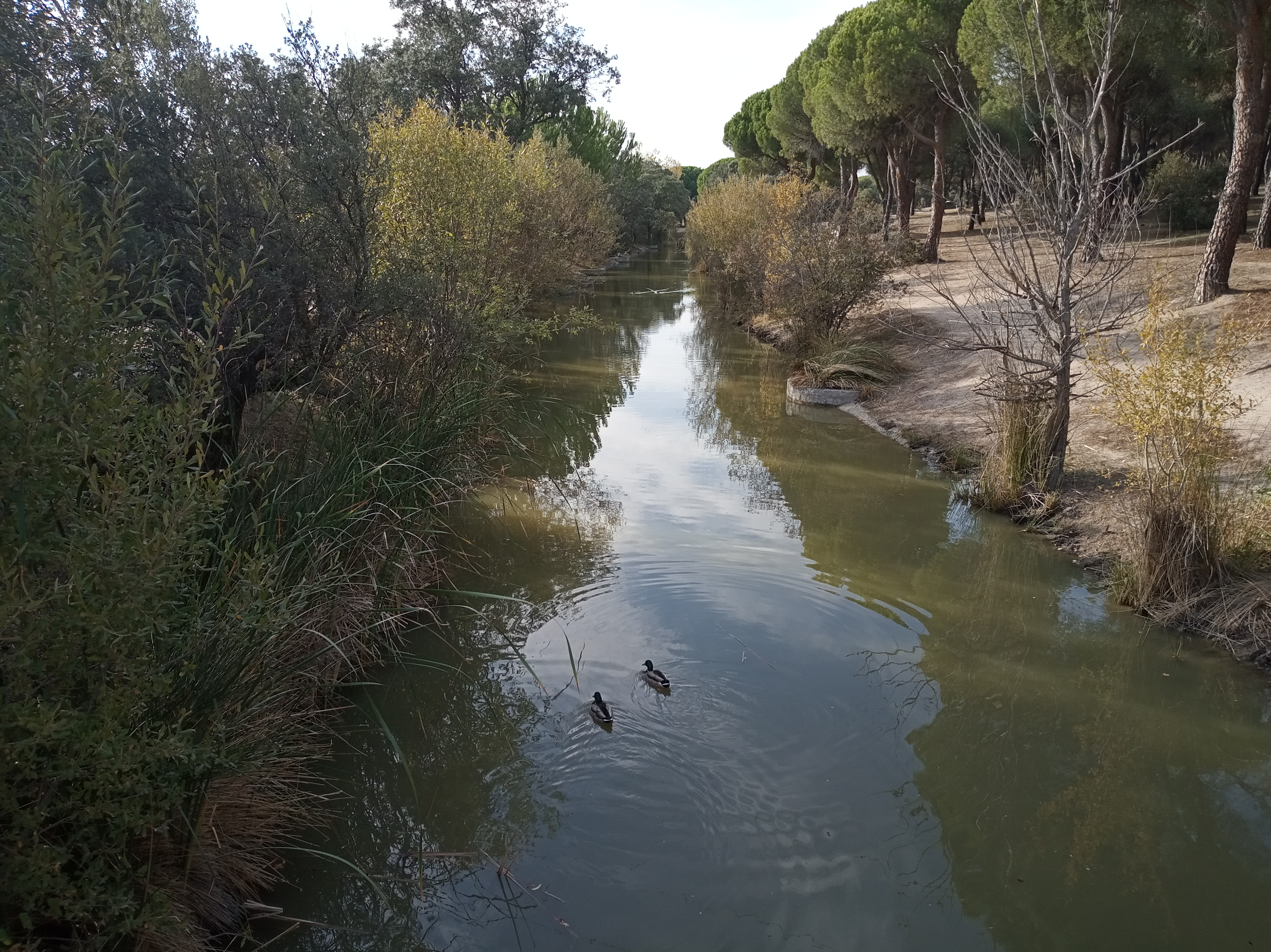 Canal of Guadarrama in Navalcarbon, Las Rozas de Madrid, Spain